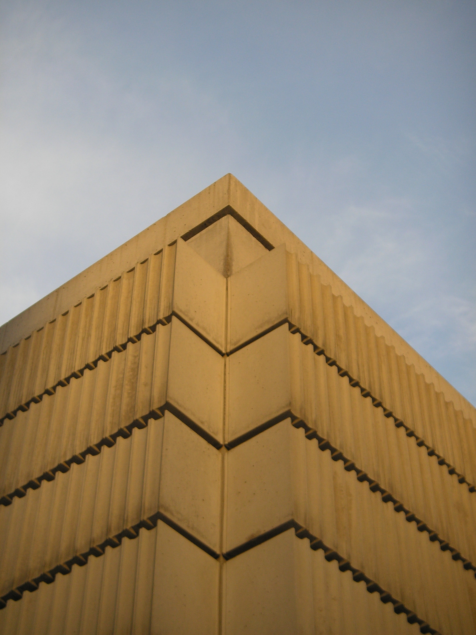 Detailed image of the Holocaust monument in Vienna, constructed by Rachel Whiteread.